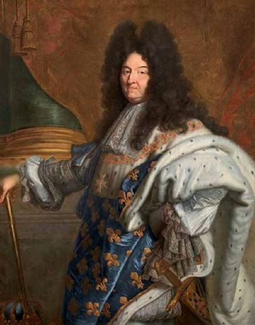 Louis XIV, king of France